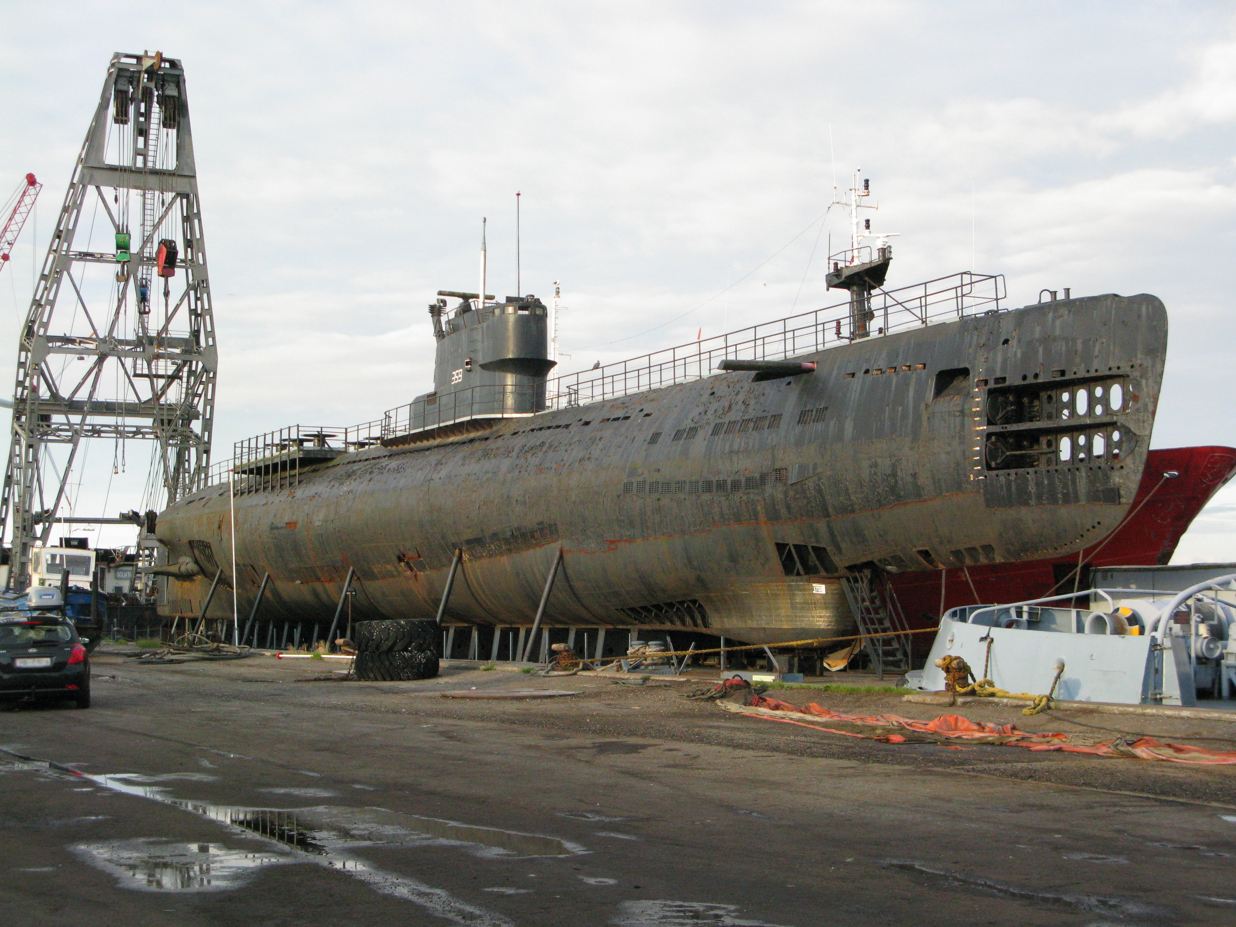 Russian Submarine U-359 in the harbour of Frederikshavn, Northern Denmark